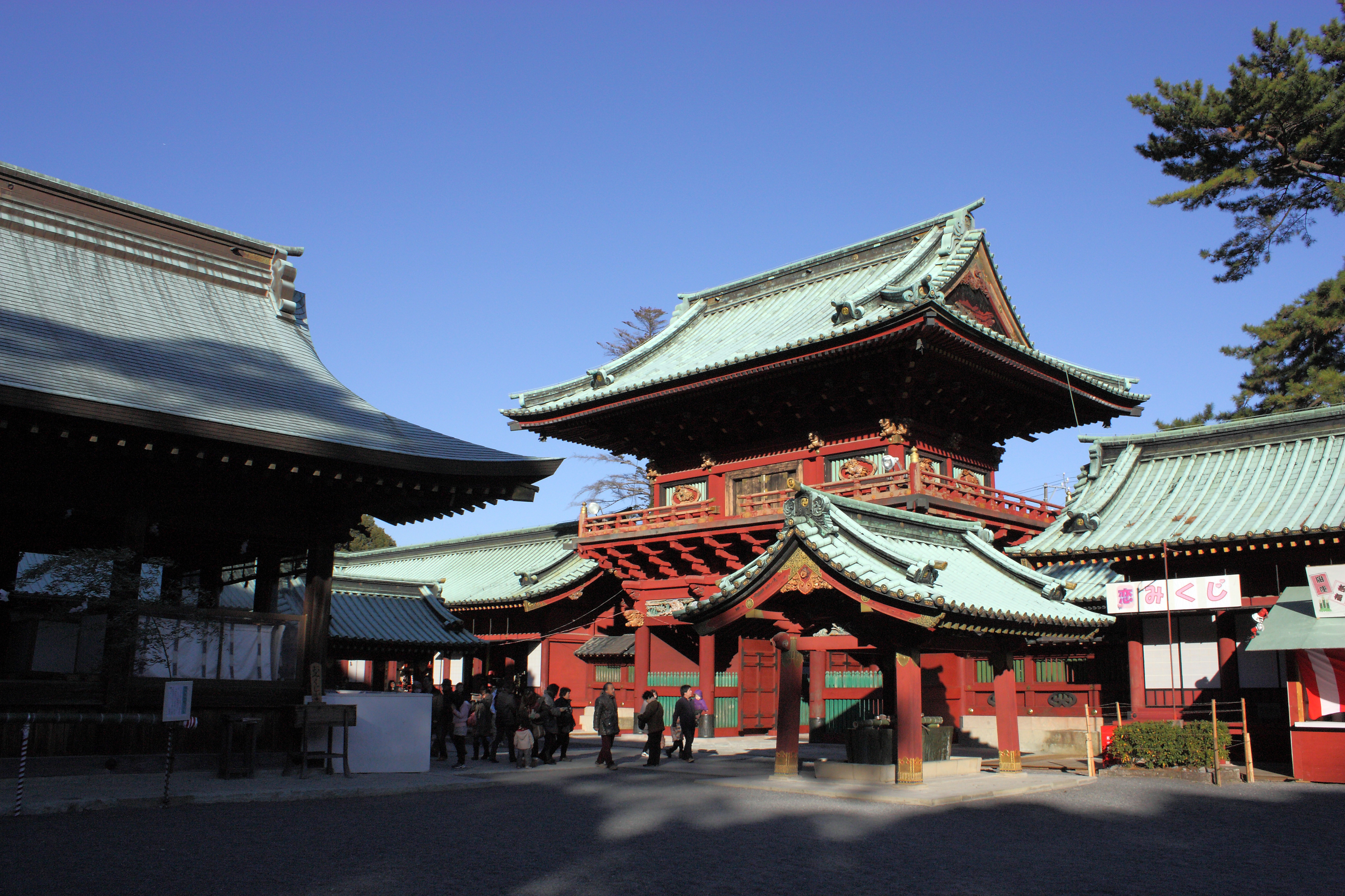 Rōmon (Main gate, centre) and Buden (stage, left) of Shizuoka-Sengen-jinja.